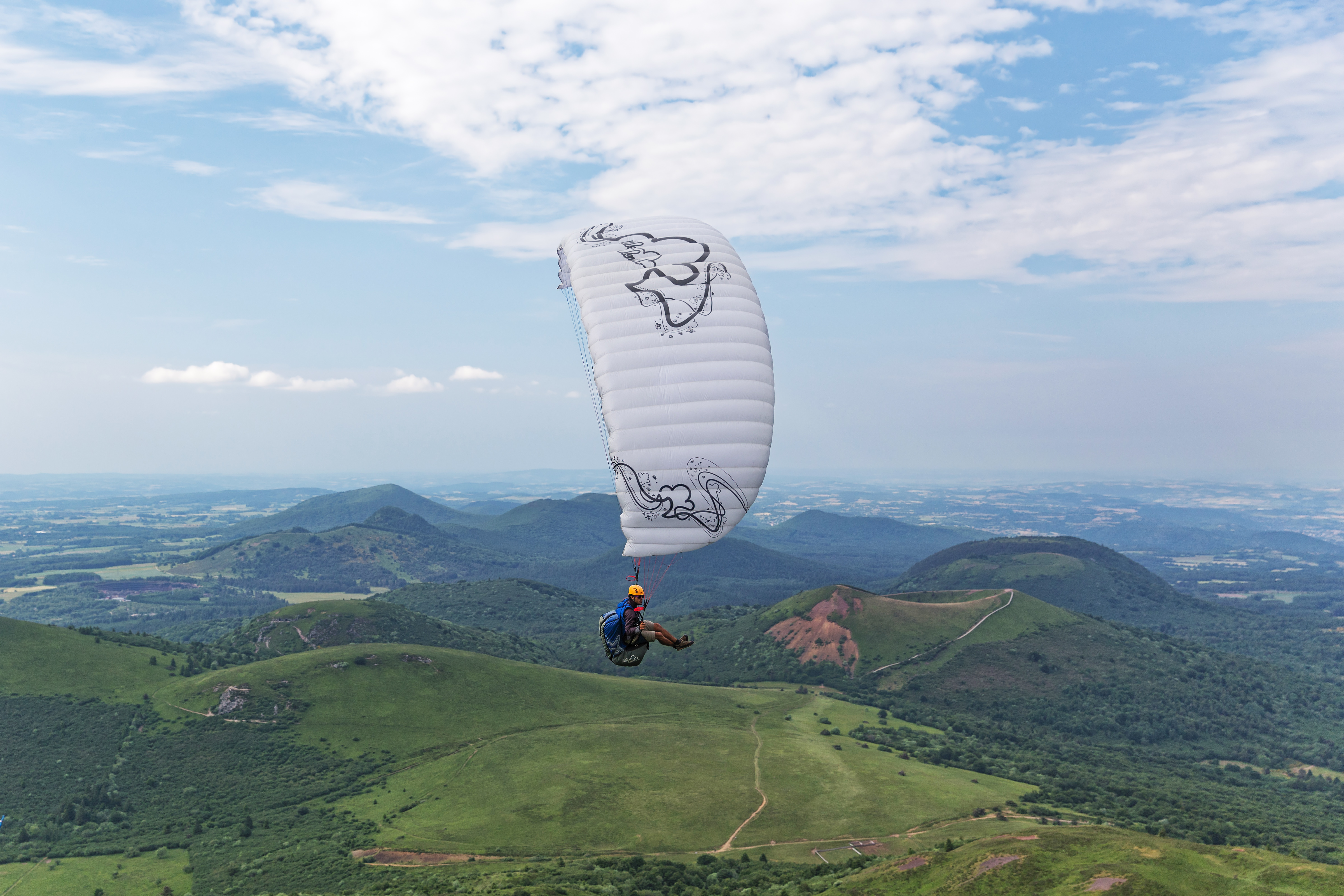 Paraglider on the puy de Dôme in Auvergne, France.